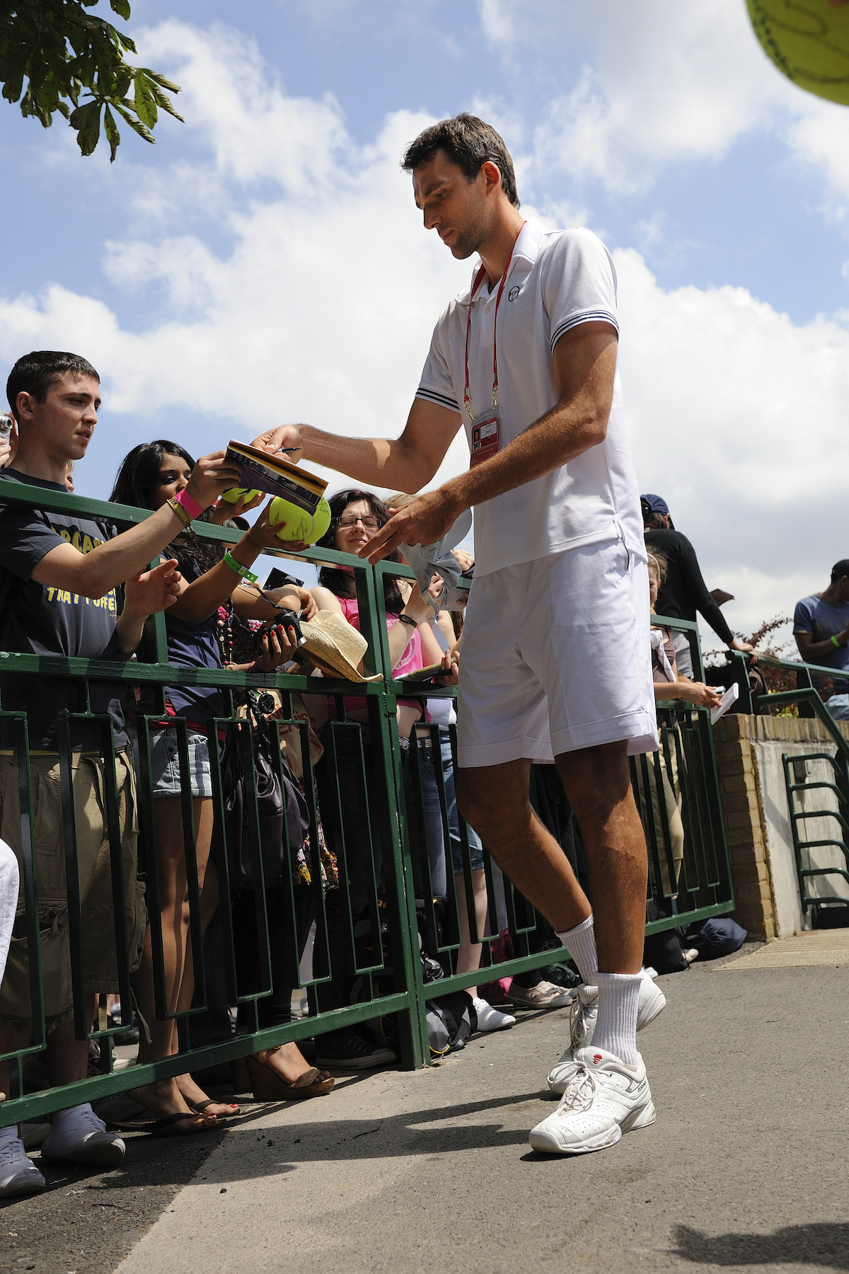 Ivo Karlović during the 2009 Wimbledon Championships